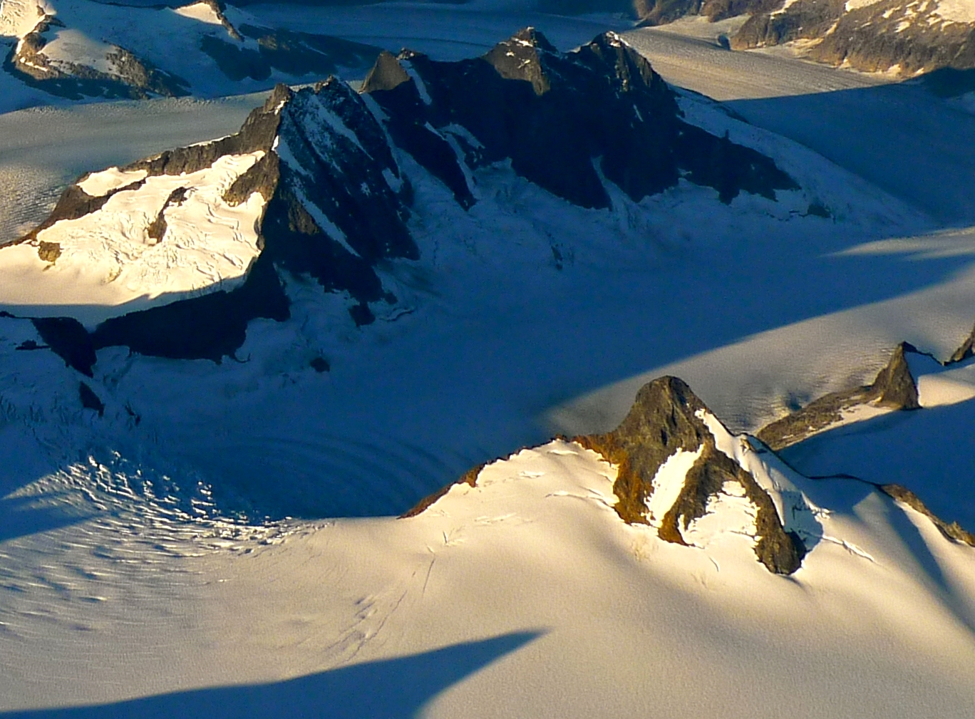 Rhino Peak lower right, and Mendenhall Towers at top.